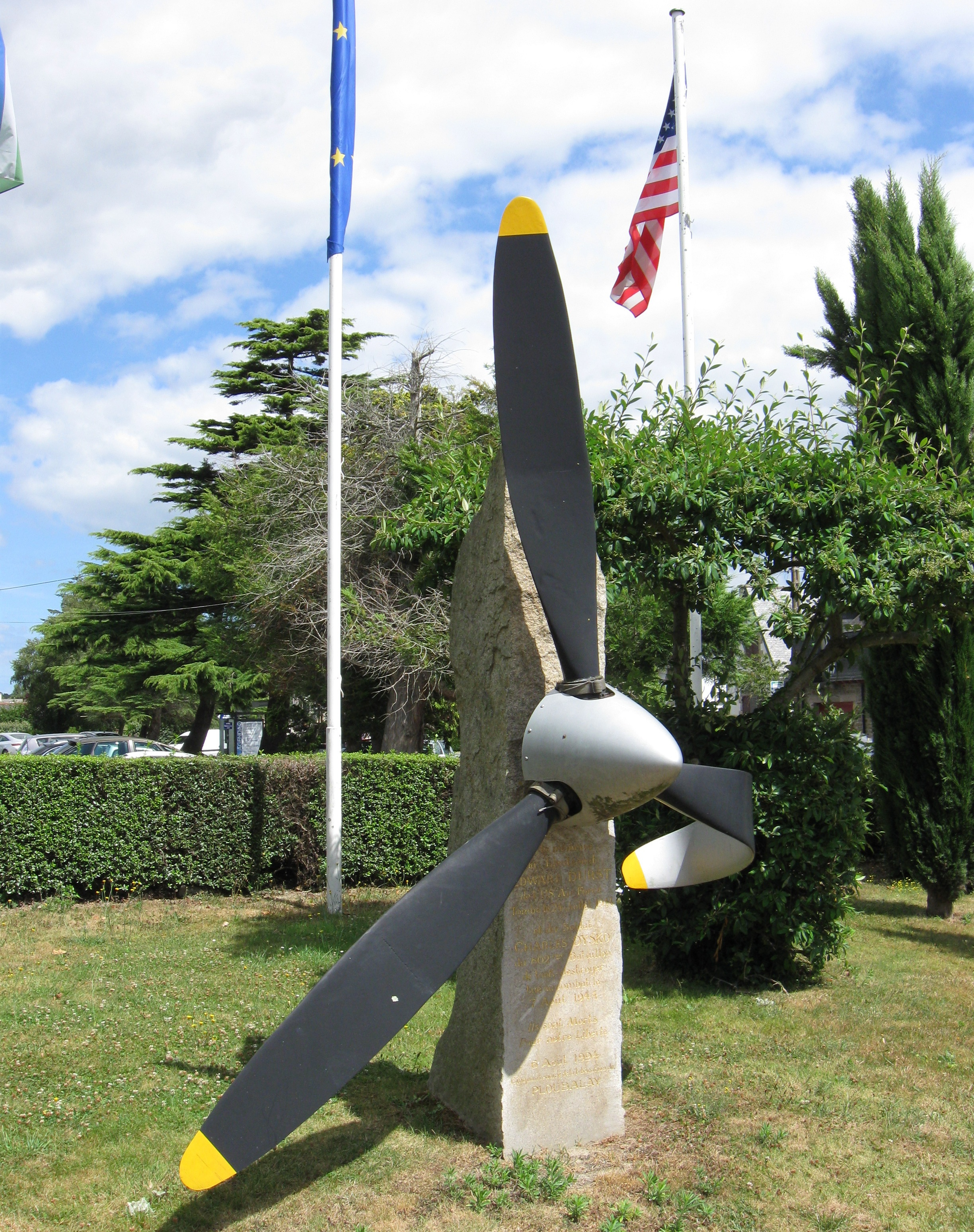 Propeller of the F-5 Lightning "The Florida Gator" (42-67119) of the 22nd Photographic Squadron, 7th Photographic Reconnaissance Group that crashed near Ploubalay, Côtes-d'Armor, Brittany 24 July 1944, killing pilot 2nd Lt. Edward W. Durst Jr. A monument commemorates Durst and Pvt. Charles Dysko of the 802nd Tank Destroyer Battalion who was killed in action 7 August 1944.